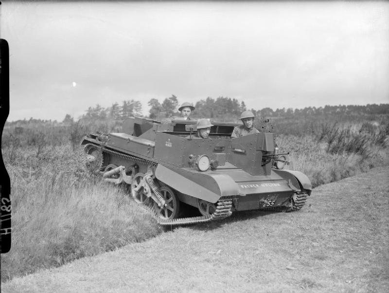 The British Army in the United Kingdom 1939-45 Bren gun carrier, bearing the name 'Father O'Flynn' of the London Irish Rifles, Sussex, winter 1939/40.